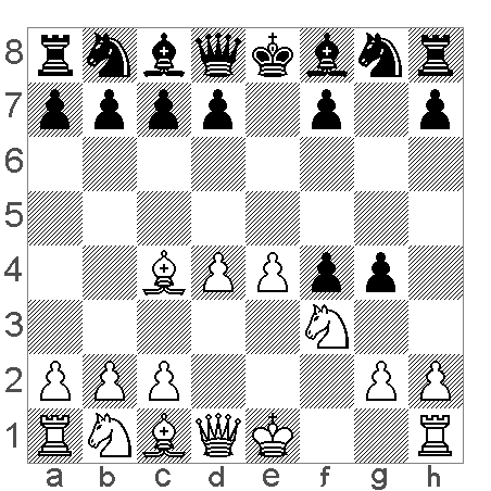 chess diagram Ghulam-Khassim Gambit Source: CBlight + my processing